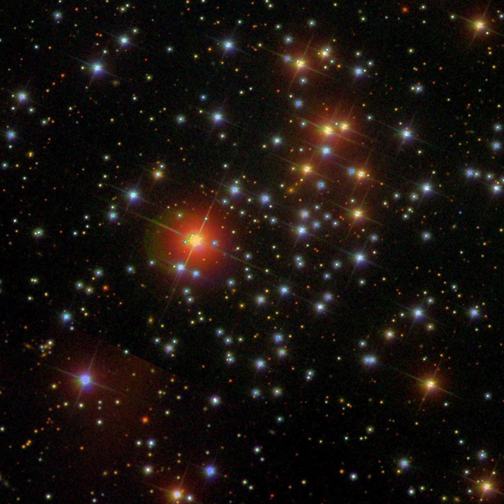 Angle of view: 13.2' × 13.2' (0.396" per pixel), north is up.